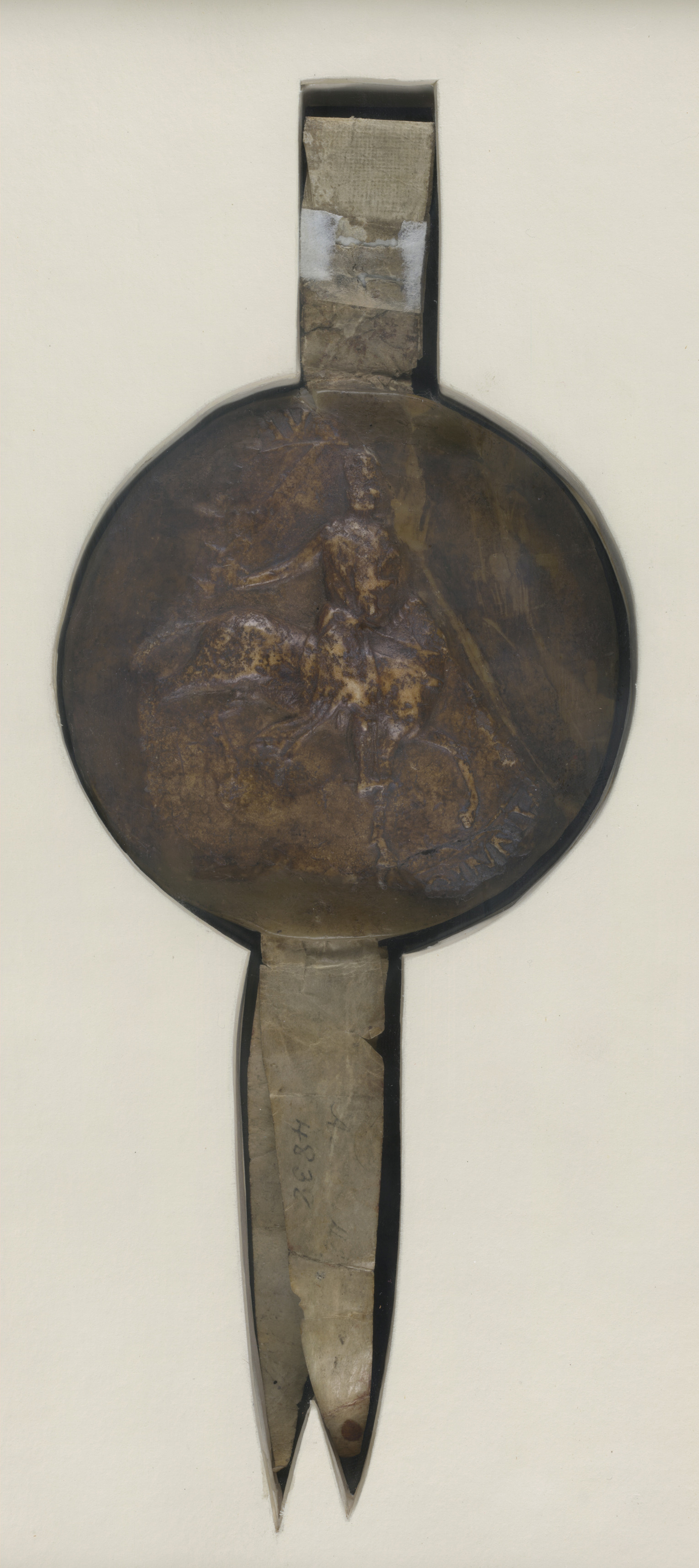 Great Seal of King John [Reverse] Impression of the Great Seal of King John, showing the king on horseback. Originally attached to the Articles of the Barons, the precursor to the Magna Carta, June 1215. Approx size: Diameter: 95 mm. Length at widest point of seal : 75mm.